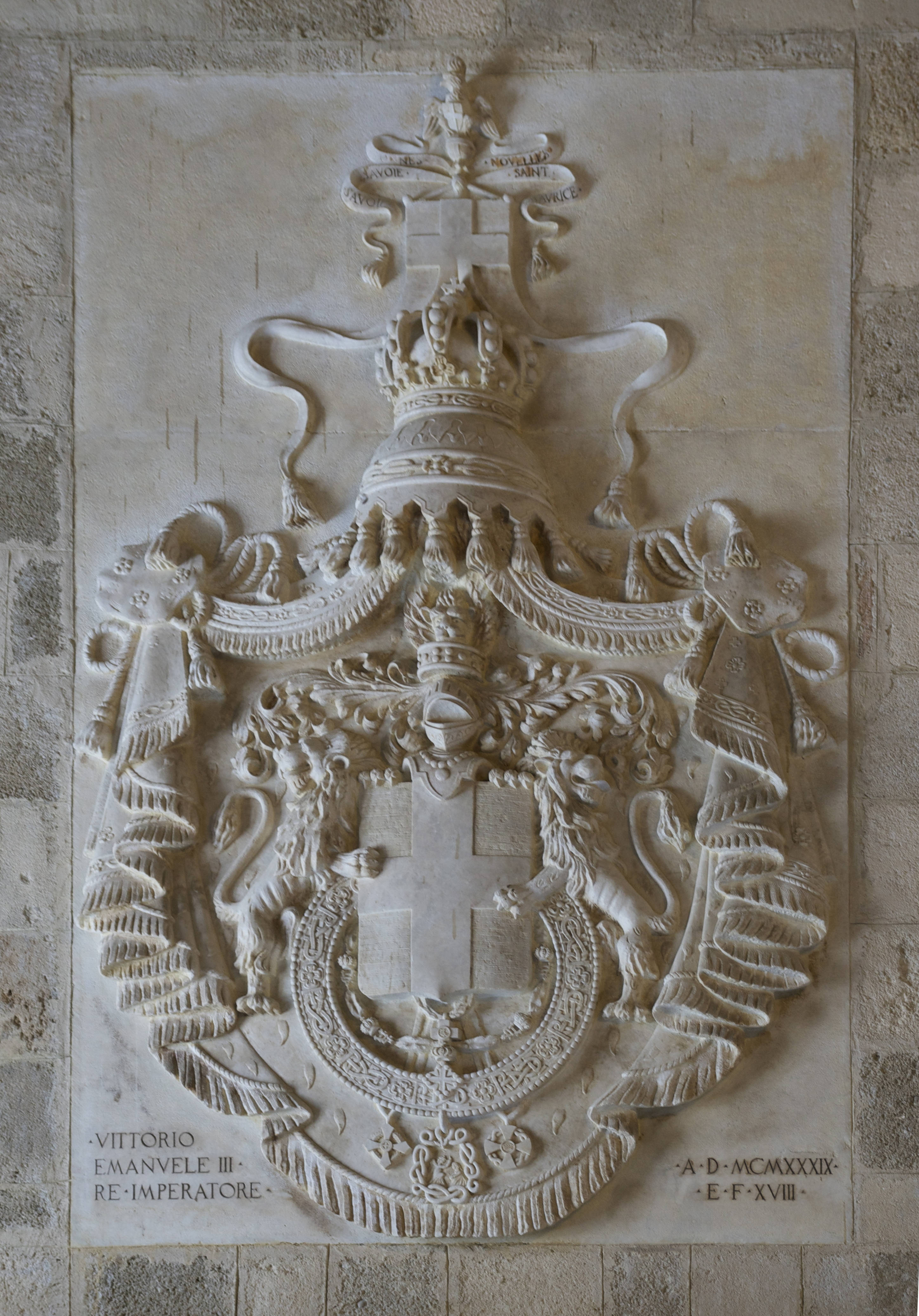 relief of coat of arms of Victor Emmanuele III king of Italy (and emperor of the "Fascist Empire"), in the palace of the grand masters of the Knights of Rhodes, in Rhodes, island of Rhodes, Greece.